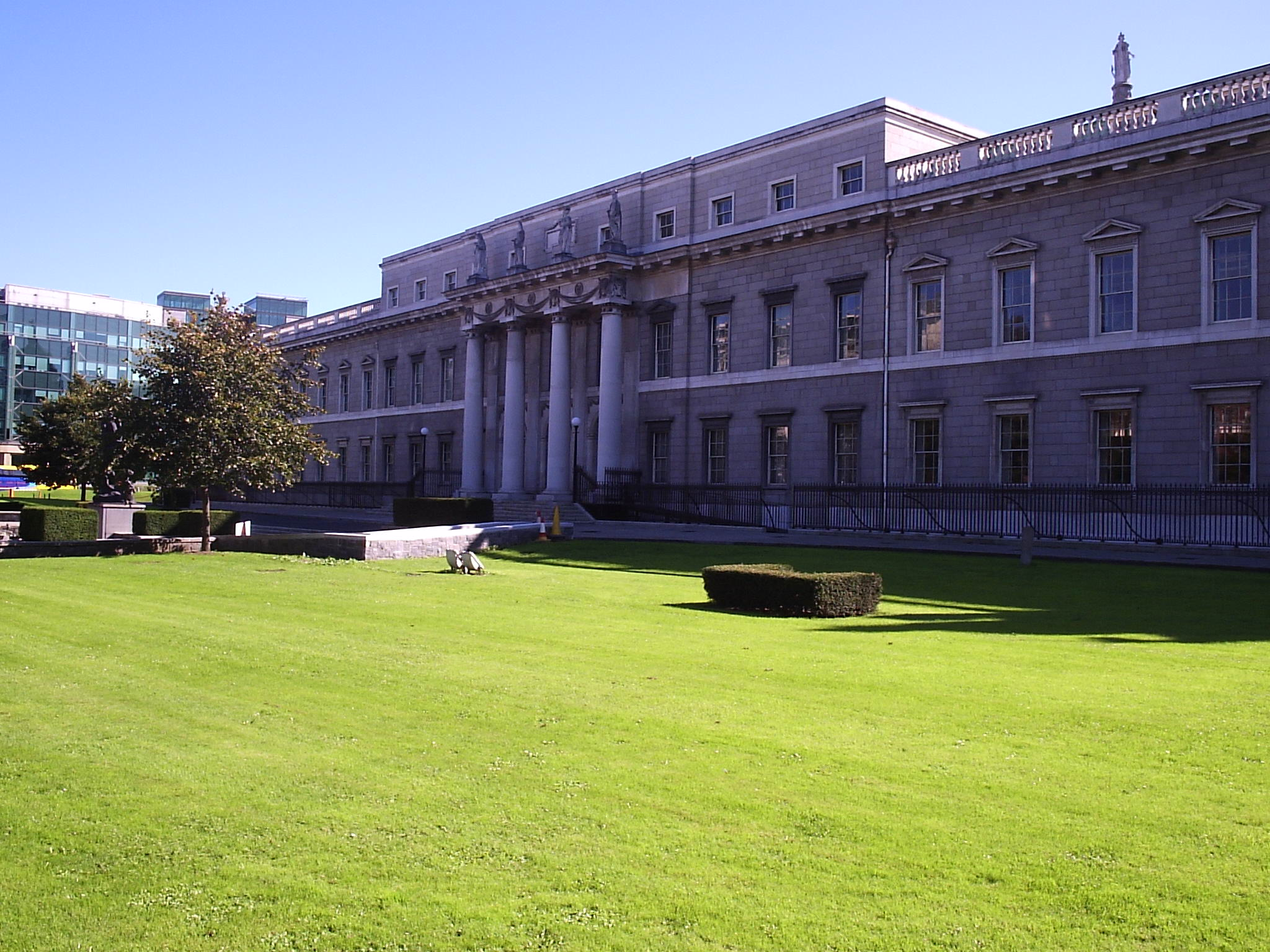 Dublin Custom House, back